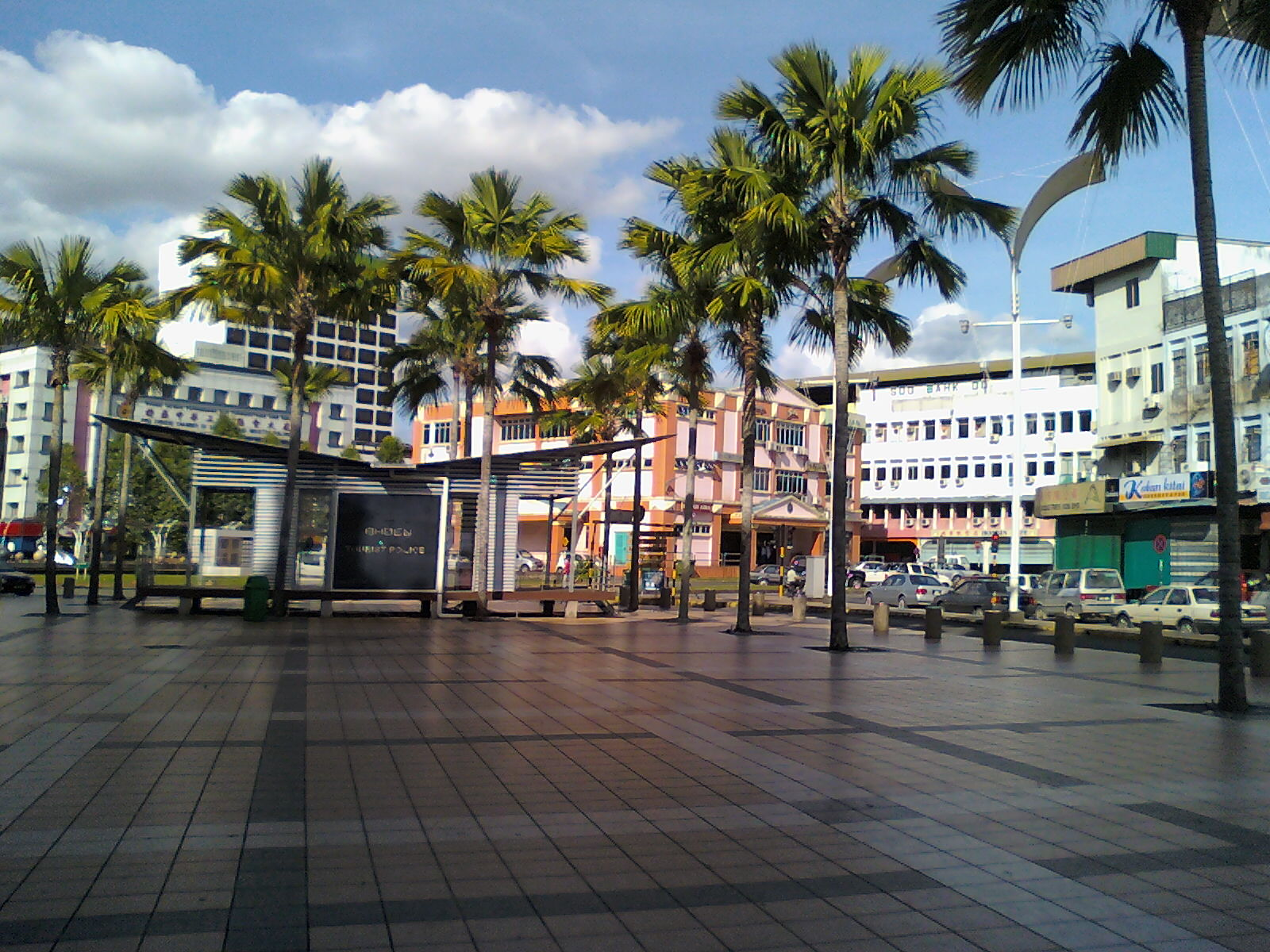 An area in downtown Sibu.